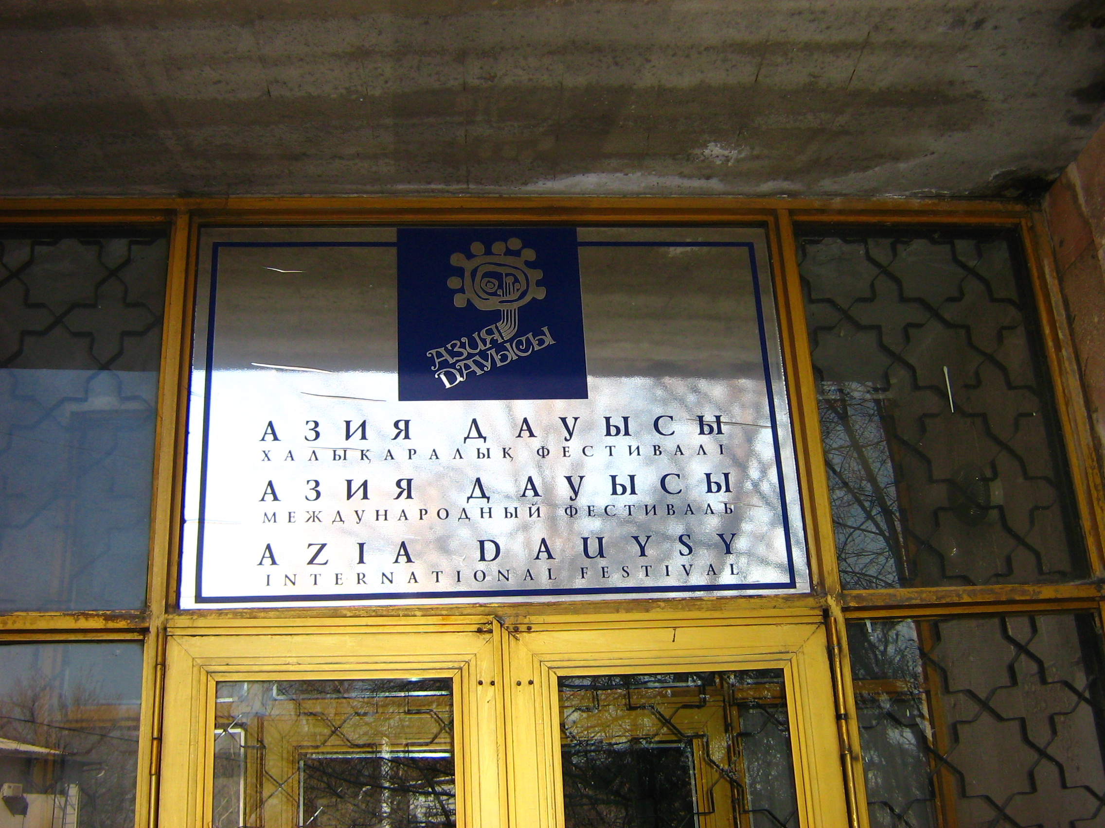 The doors of Voice of Asia organizing Committee in Almaty, Kazakhstan.